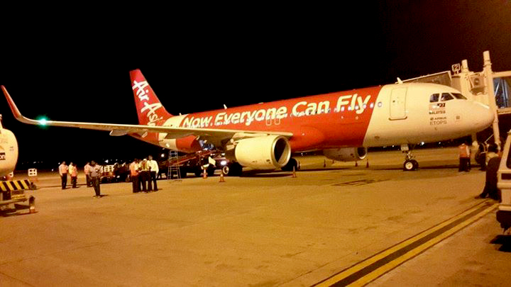 Air Asia A320-200 Arrived from Kuala lumpur on 7th May 2015 at 21:10hrs